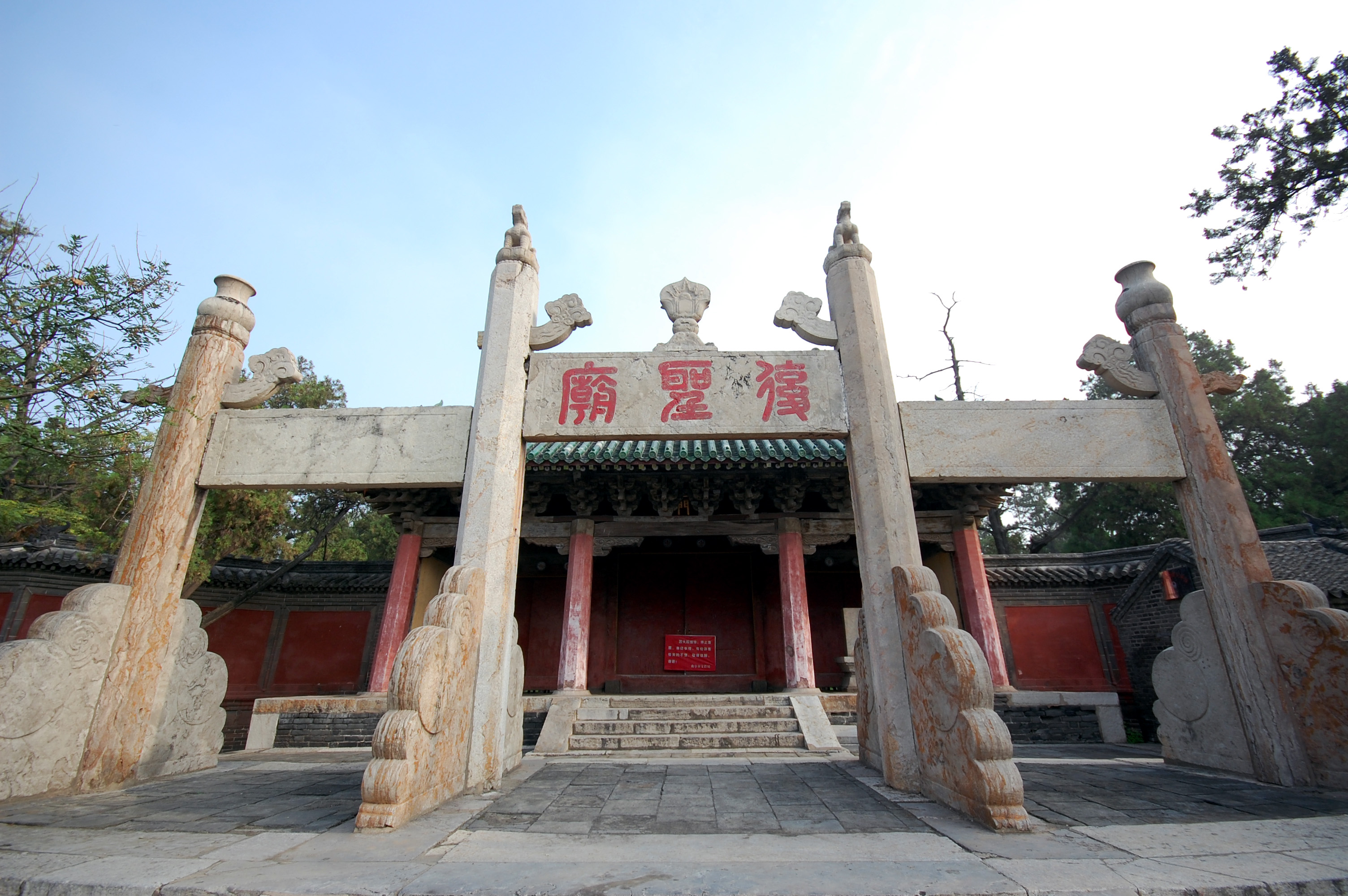 The Temple of Yan, Qufu, China